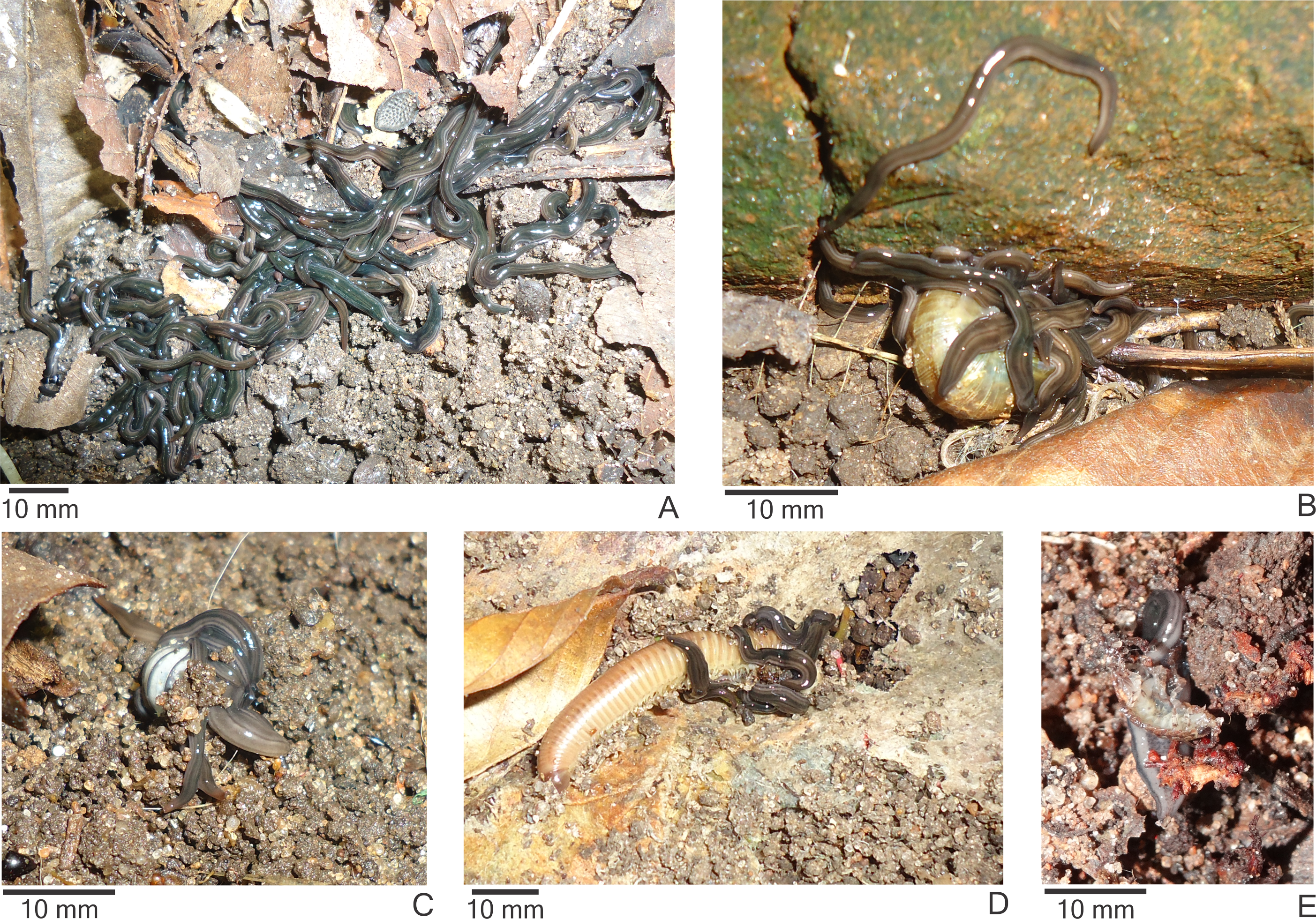 Endeavouria septemlineata behavior. (A) Specimens gathering in a group of many individuals in the field; specimens feeding on (B) the snail Bradybaena similaris, (C) the woodlouse Armadillidium vulgare and (D) the millipede Rhinocricus sp. in the field; (E) a single specimen feeding on the woodlouse Atlantoscia floridana in the laboratory.